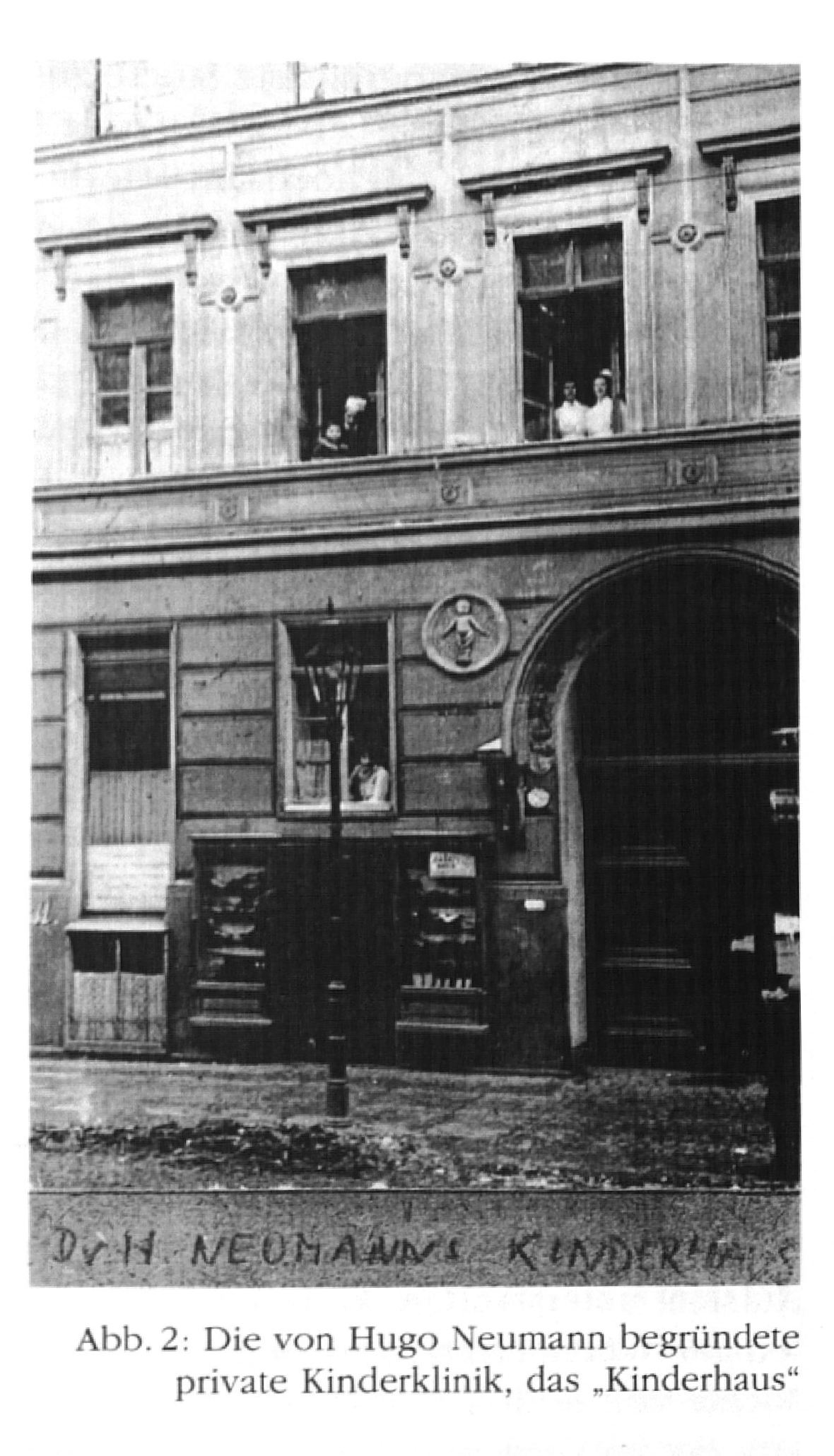 "Kinderhaus" - Private Poliklink für Kinderkrankheiten in Berlin, 1887 von Hugo Neumann eröffnet